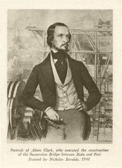 portrait of Adam Clark